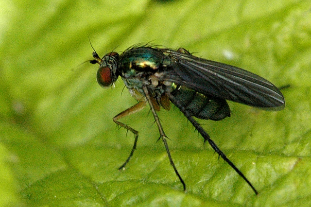 Picture taken in Commanster, Belgian High Ardennes . Species: Dolichopus urbanus